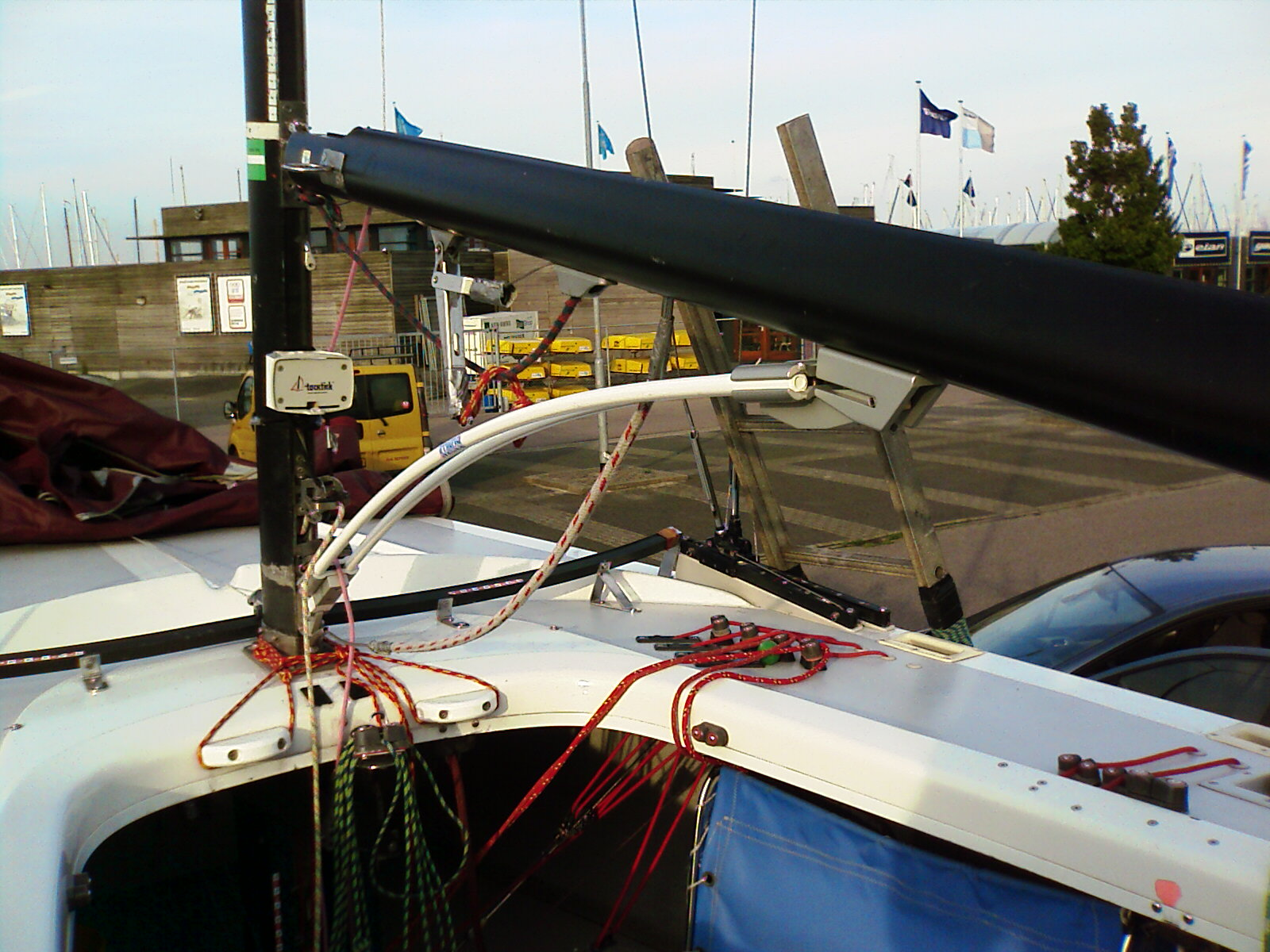 A Boomkicker is a mechanical device in sailing that pushes the boom upwards. This picture shows the boomkicker under tension.